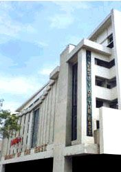 UE Manila Facade at Recto Avenue, University of the East, Metro Manila, Philippines